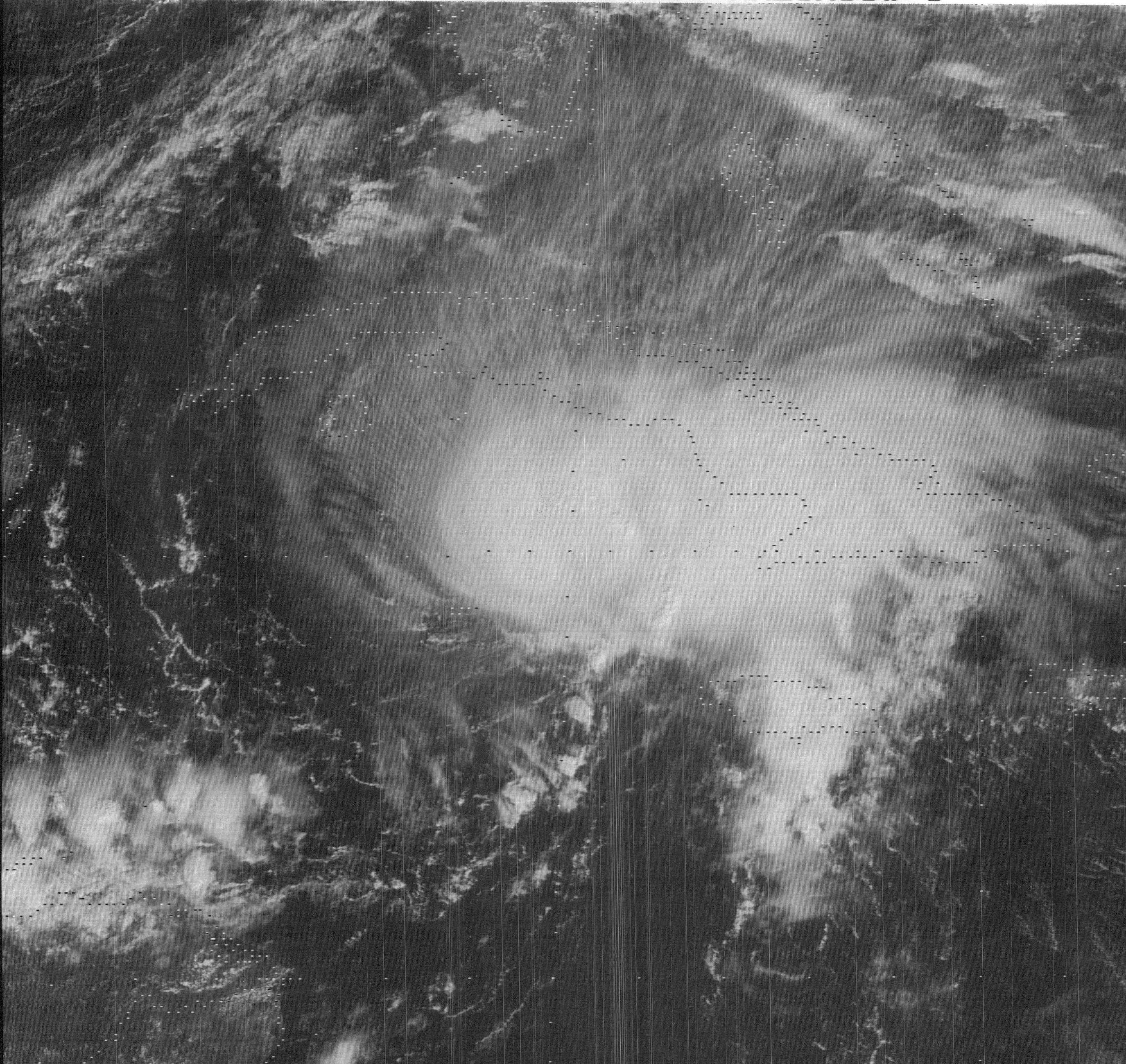 Satellite image of Hurricane Katrina in 1981 before striking Cuba